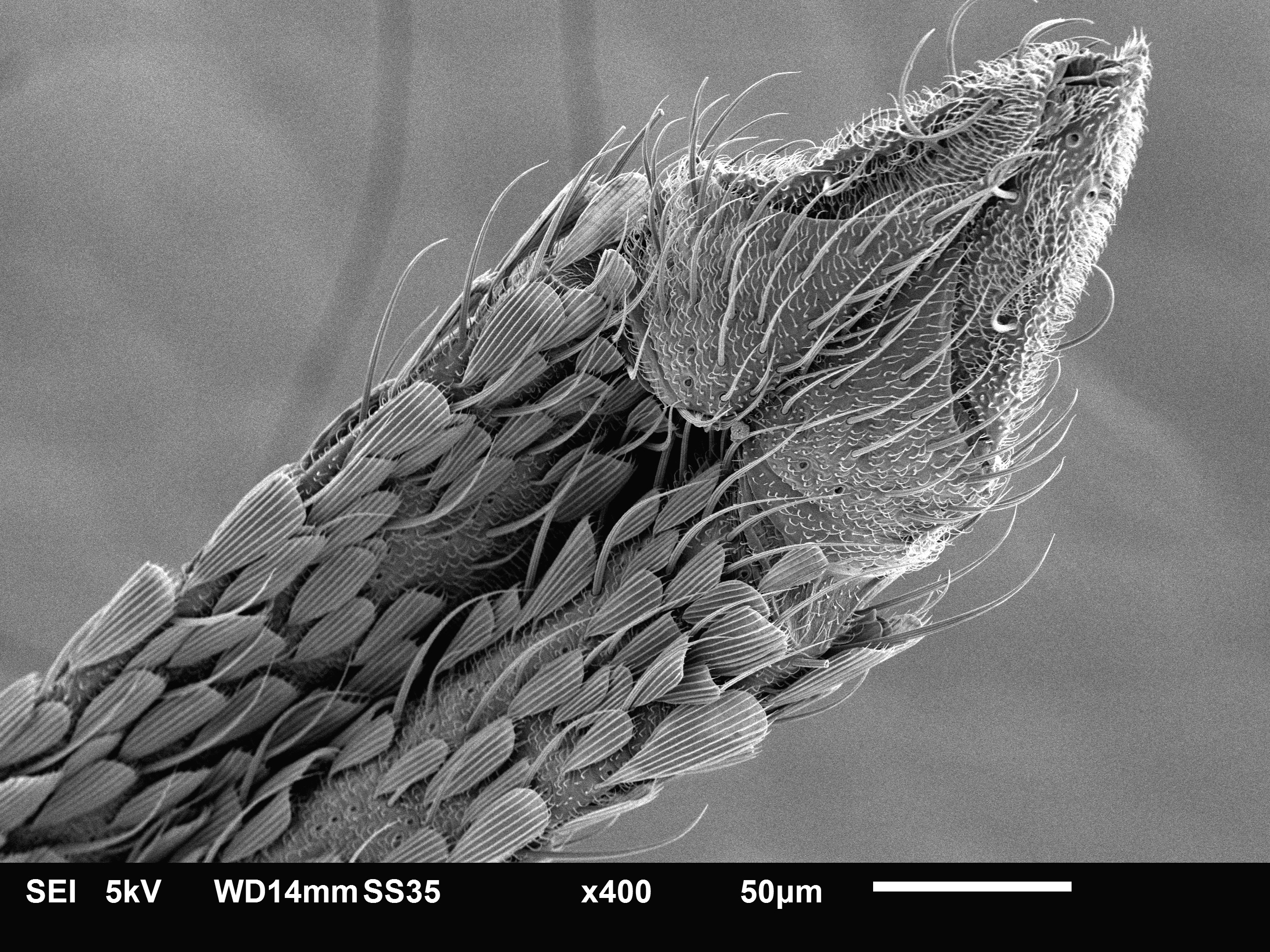 Scanning electron microscopy image of mosquito proboscis, tube-like mouthpart that is used to blood sucking.